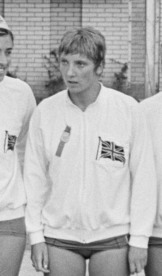 4x100 m medley podium, 1966 European Championships Mary-Anne Cotterill